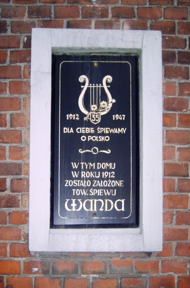 Dąbrówka Mała